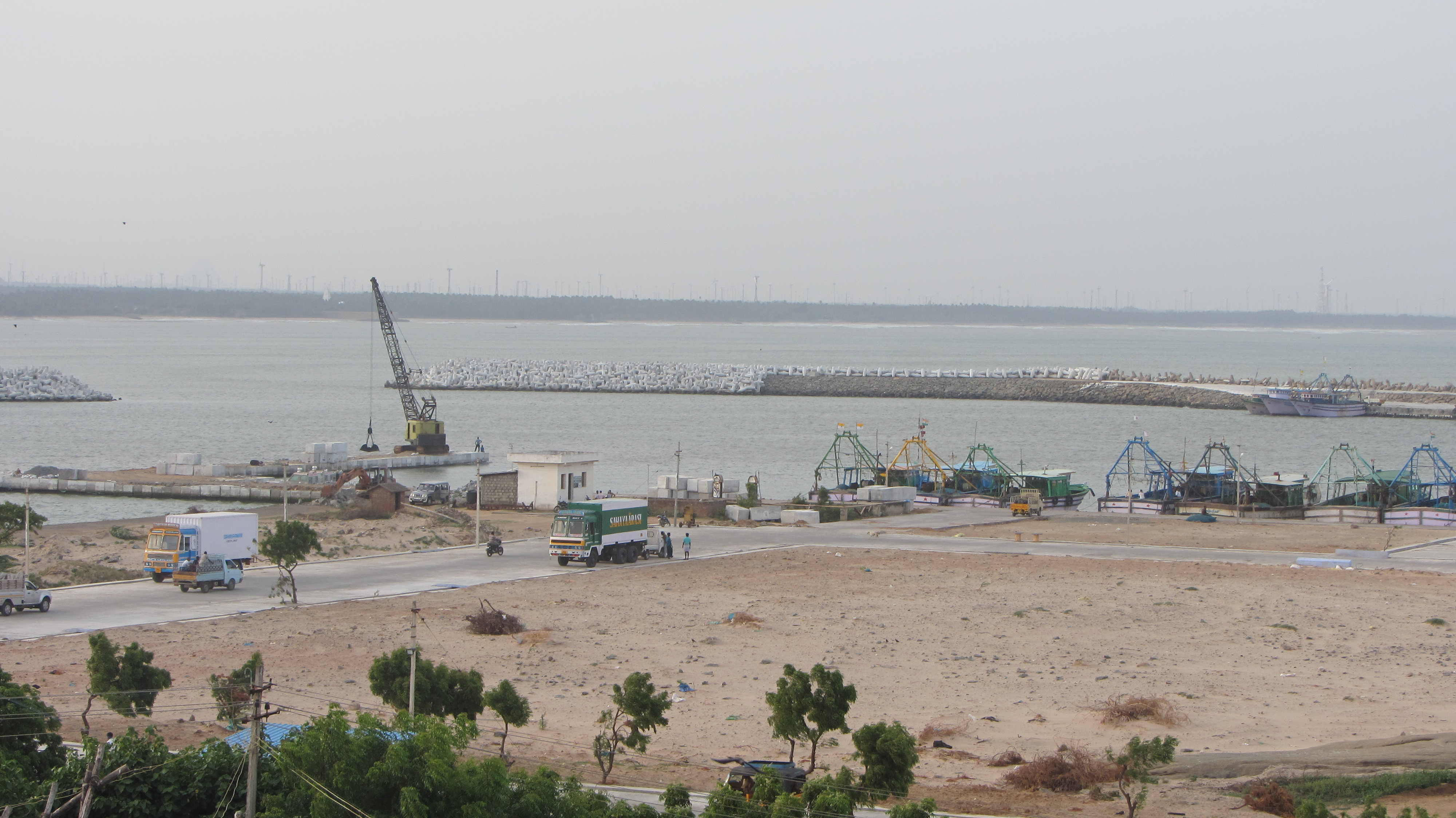 chinnamuttom